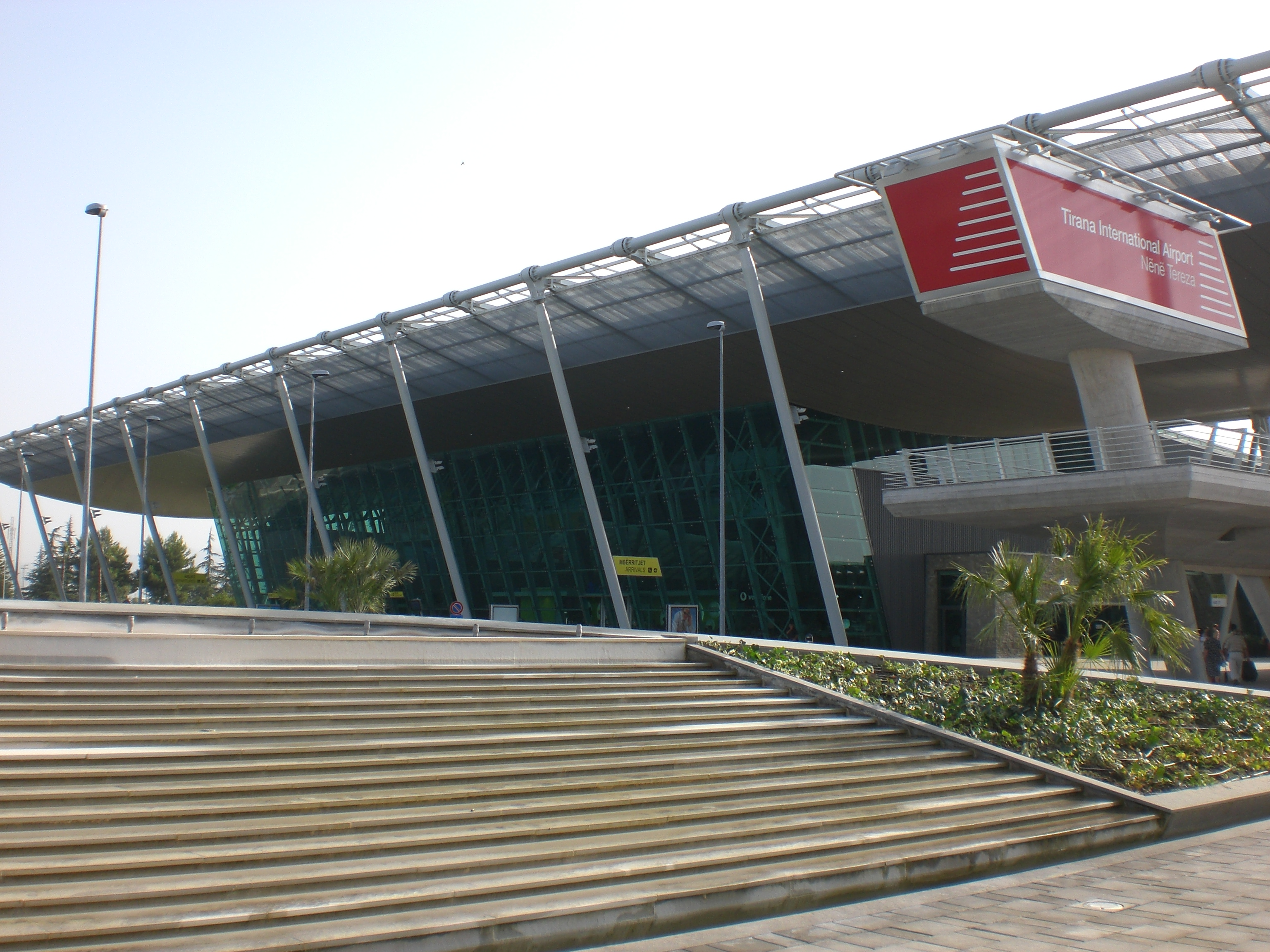 A Photograph of the new terminal at Mother Teresa International Airport at Rinas, Albania